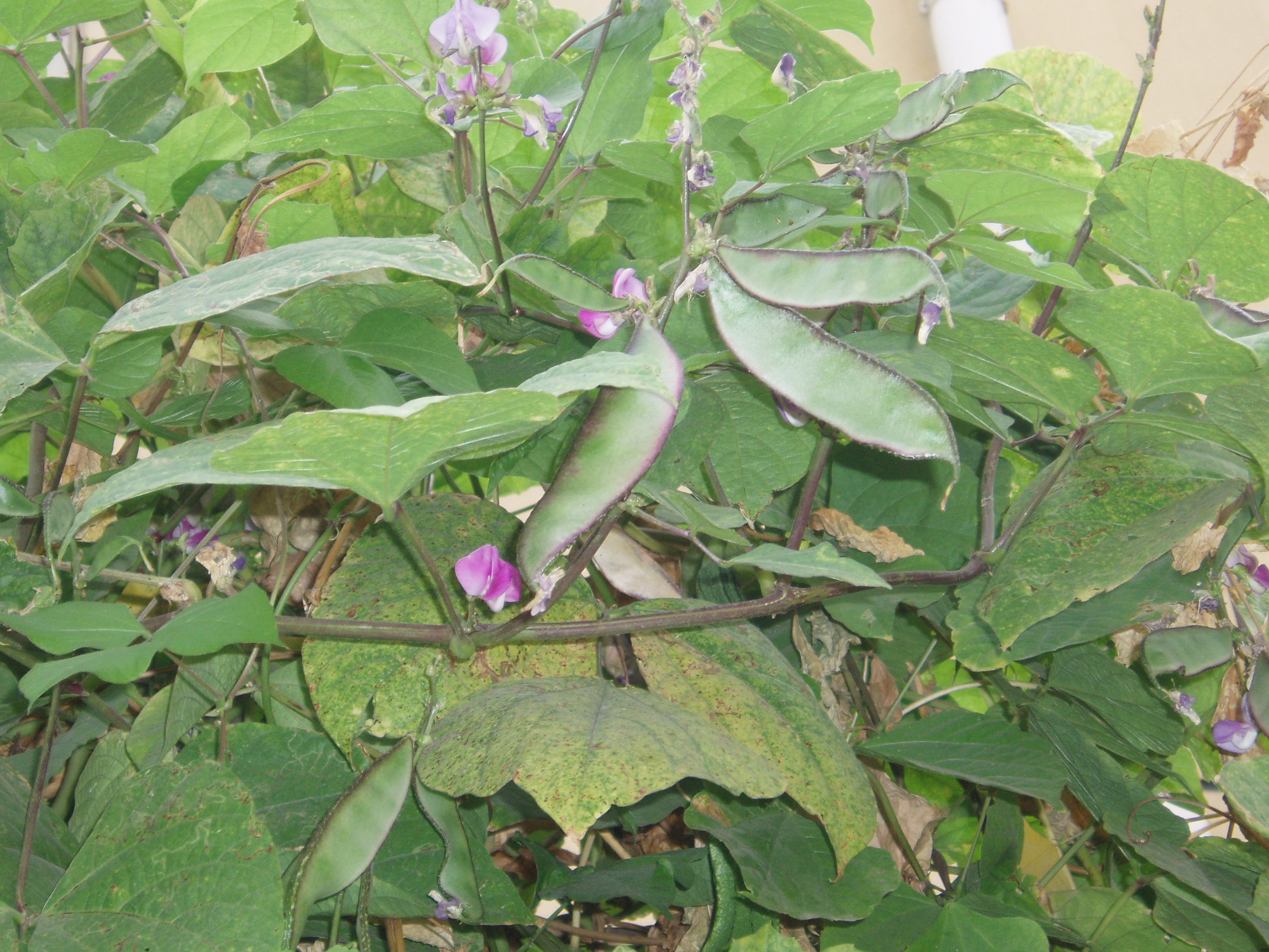 Lablab bean flowers and beans